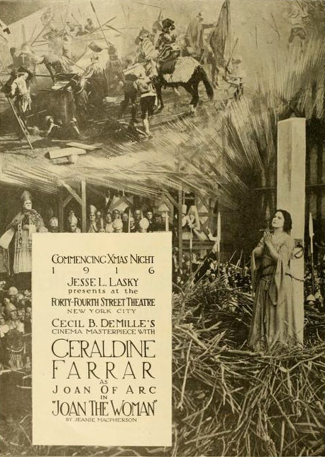 Advertisement in Moving Picture World for Joan the Woman (1916).